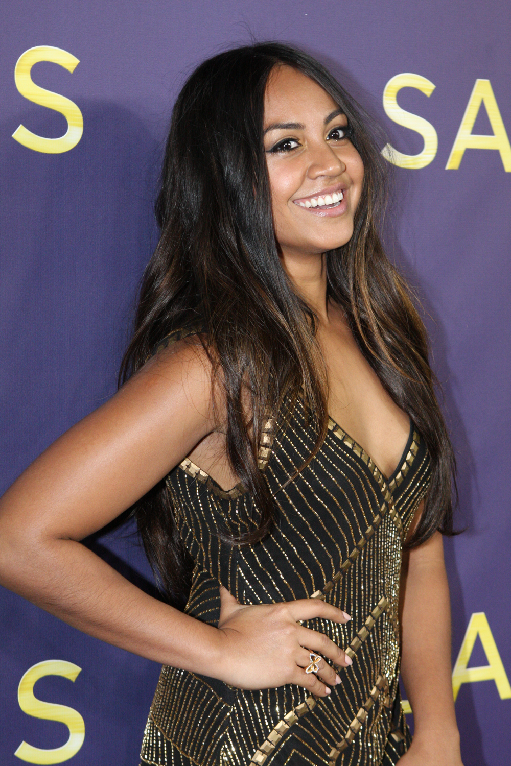 The Sapphires movie premiere at State Theatre, Sydney, Australia